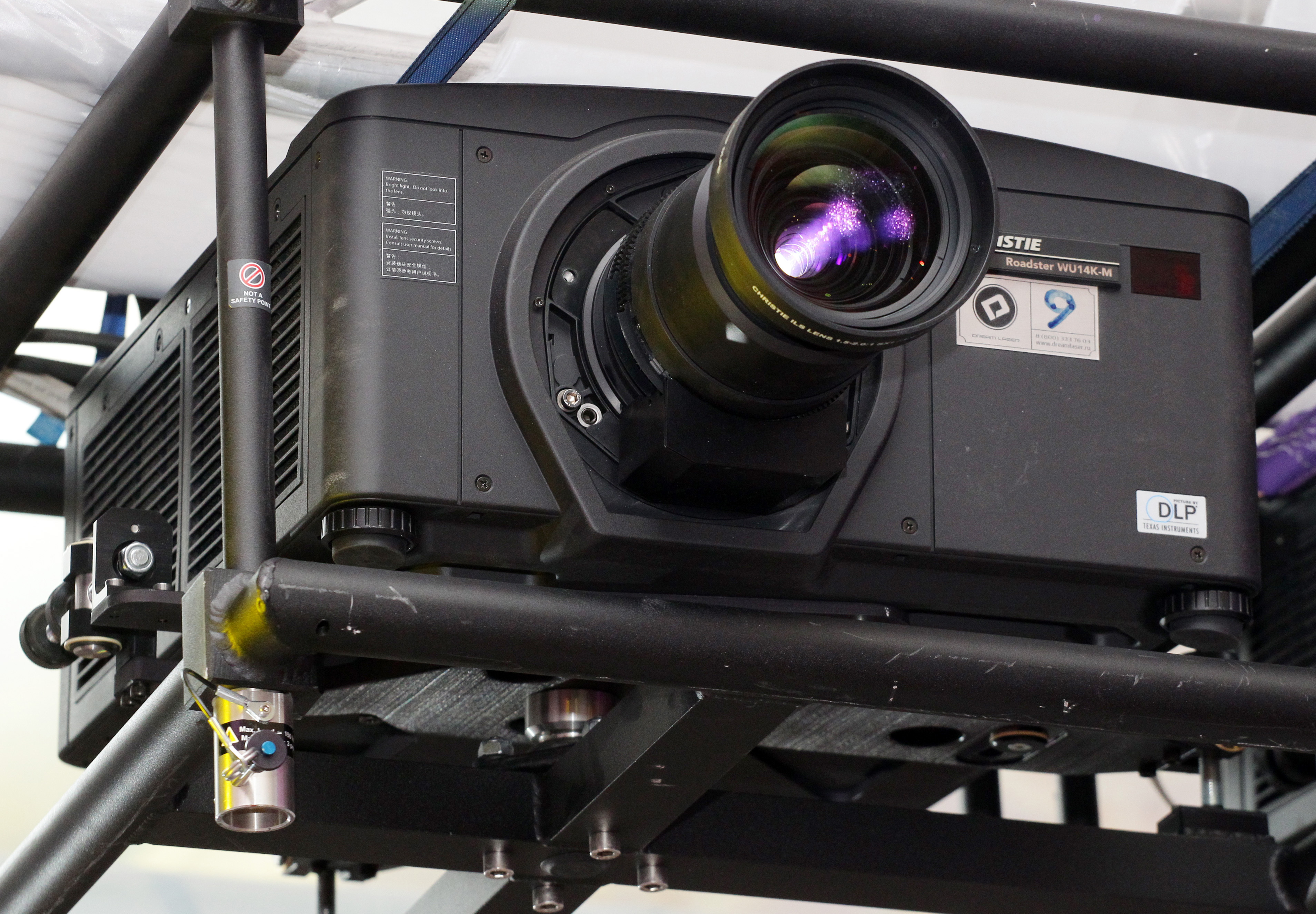 DLP-projector Christie Roadster WU 14K-M